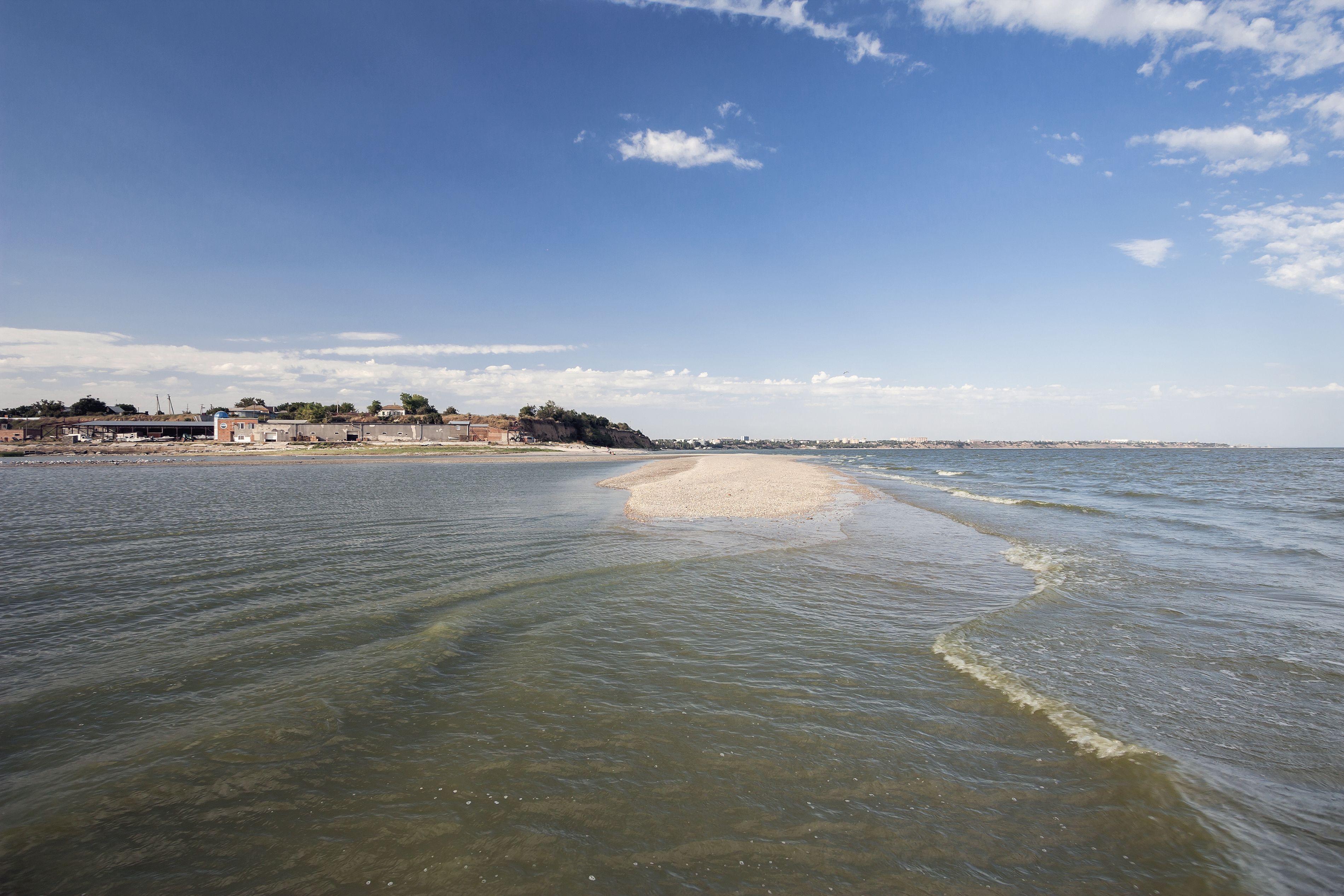 Petrushina Spit, the Sea of Azov, Rostov region